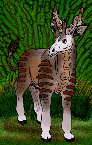 Reconstruction of the Asian giraffe, Sivatherium giganteum